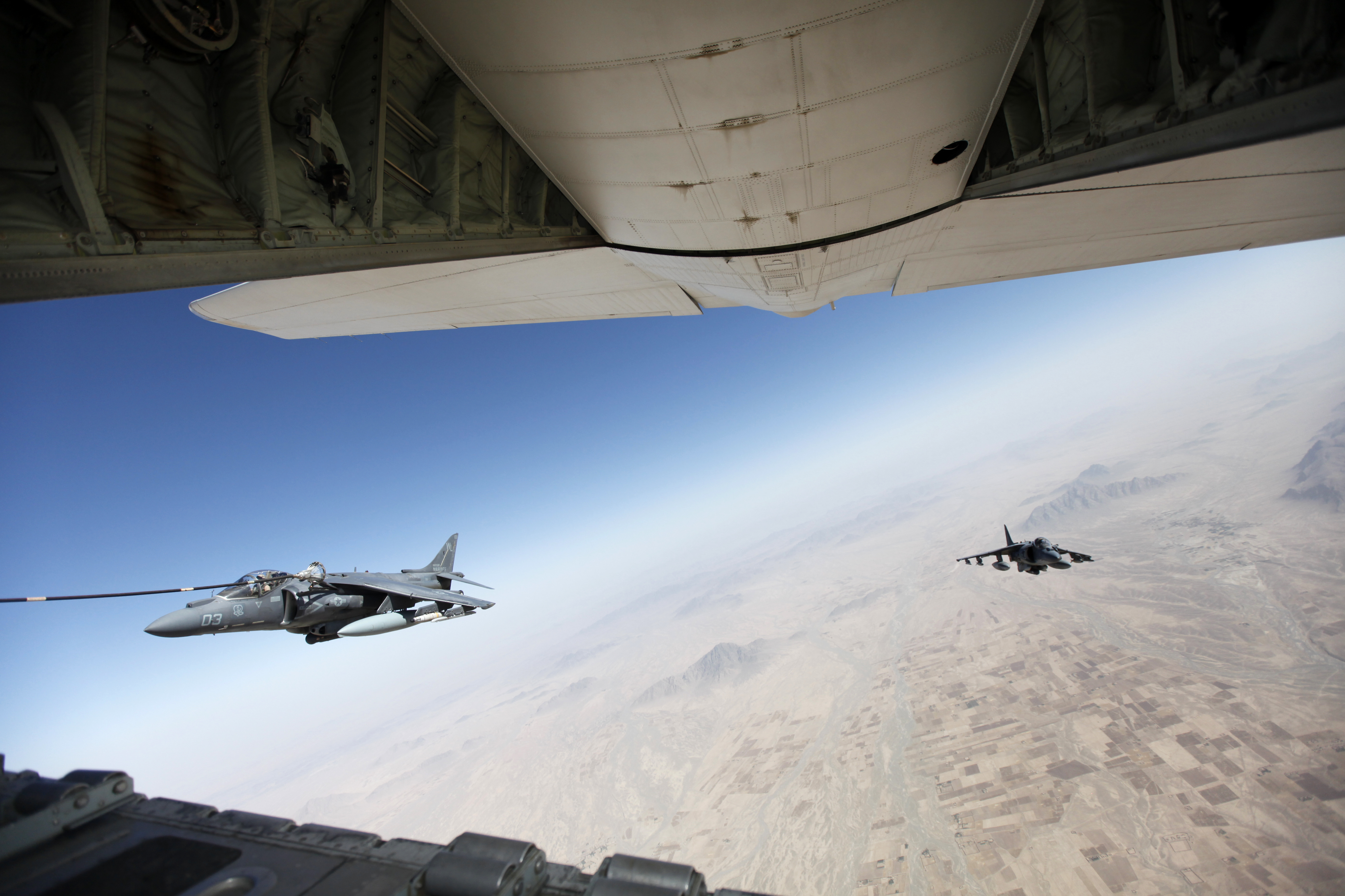 A U.S. Marine Corps AV-8B Harrier aircraft assigned to Marine Attack Squadron (VMA) 311 receives fuel from a KC-130J Hercules aircraft assigned to Marine Aerial Refueler Transport Squadron (VMGR) 252 over Helmand province, Afghanistan, June 10, 2013.